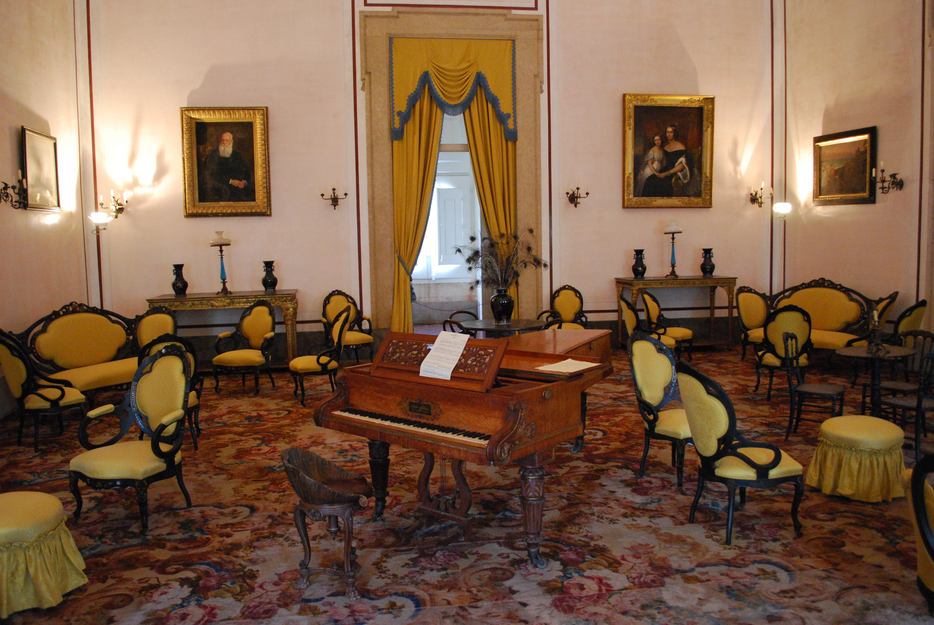 This file was uploaded for Wiki Loves Monuments in Portugal with the unique identifier 69940.